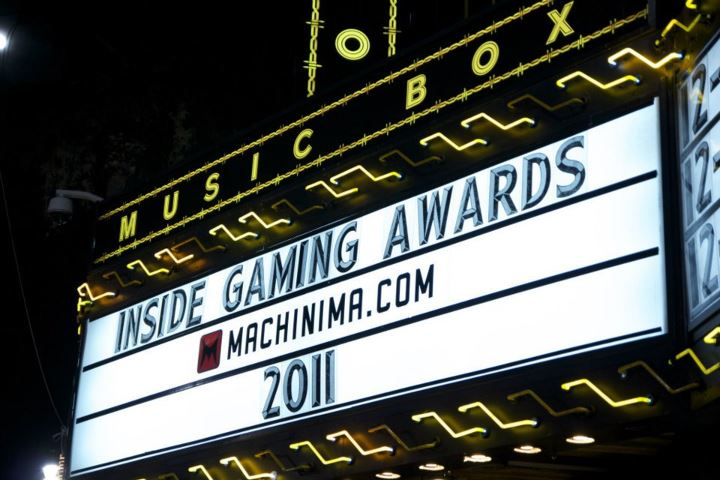 Inside Gaming Awards 2011 display board for Machinima, Inc..